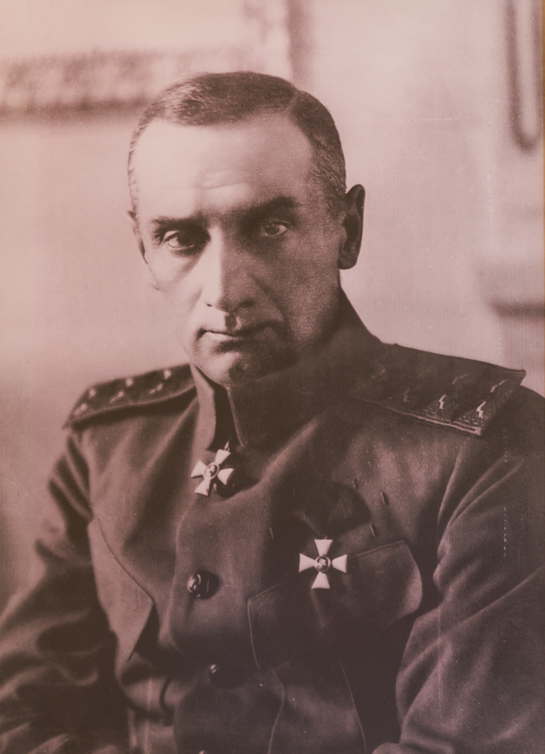 Aleksandr Kolchak